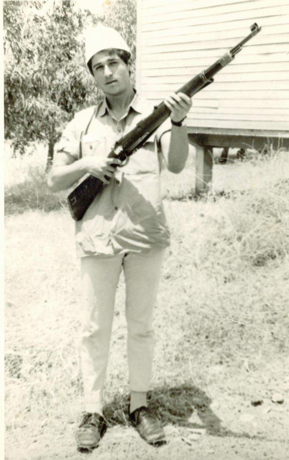 Israel Defense Forces